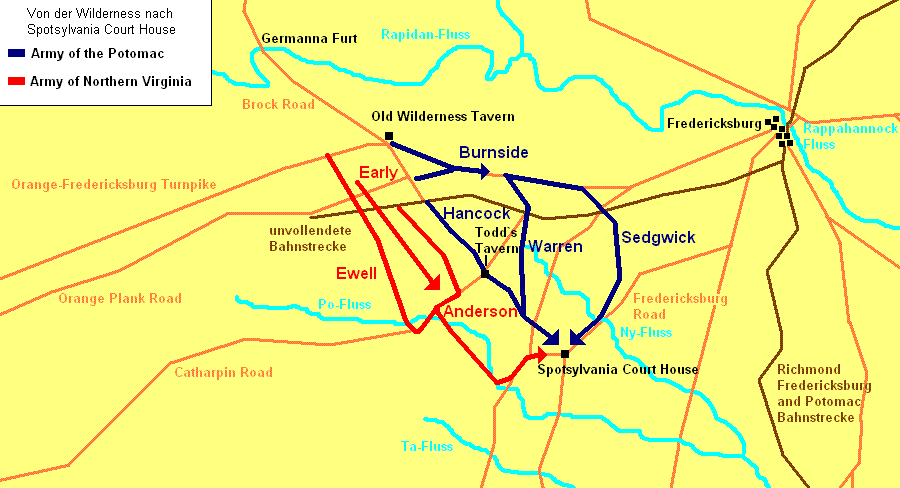 Movement of Union and Confederate forces from the Wilderness to Spotsylvania Courthouse.